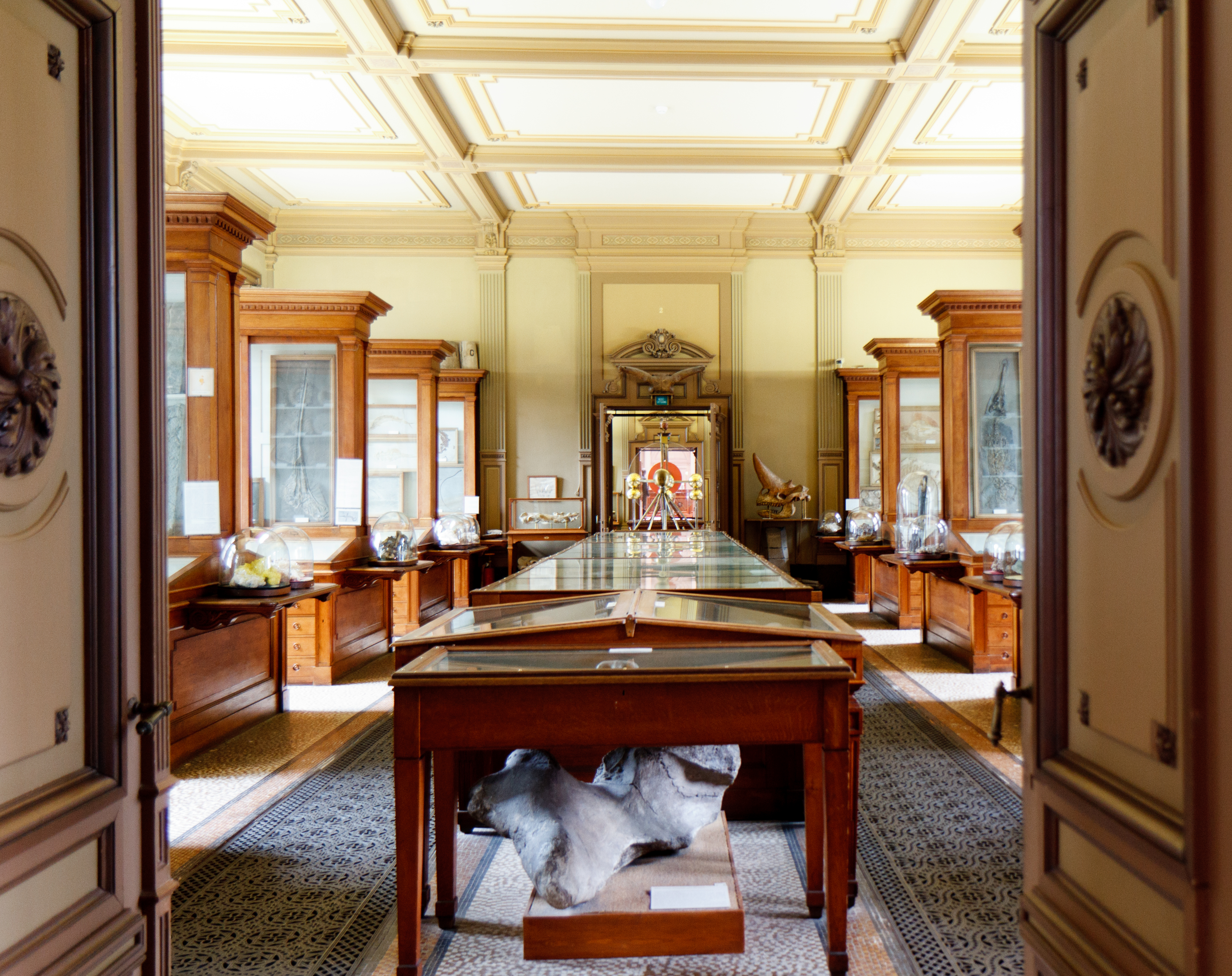 Teylers Challenge, visit to the museum on 28 April, 2012